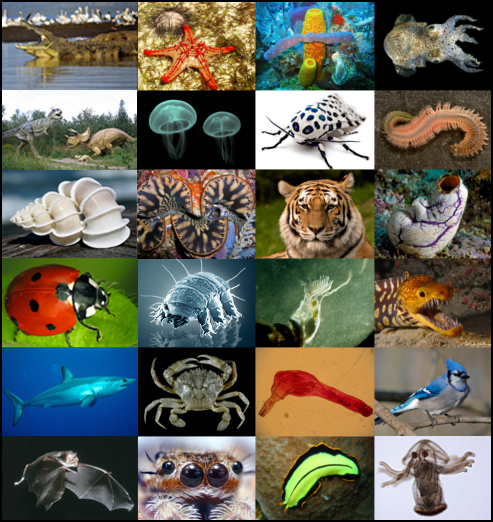 Animal Diversity